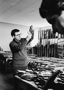 Yoki, Émile Aebischer.